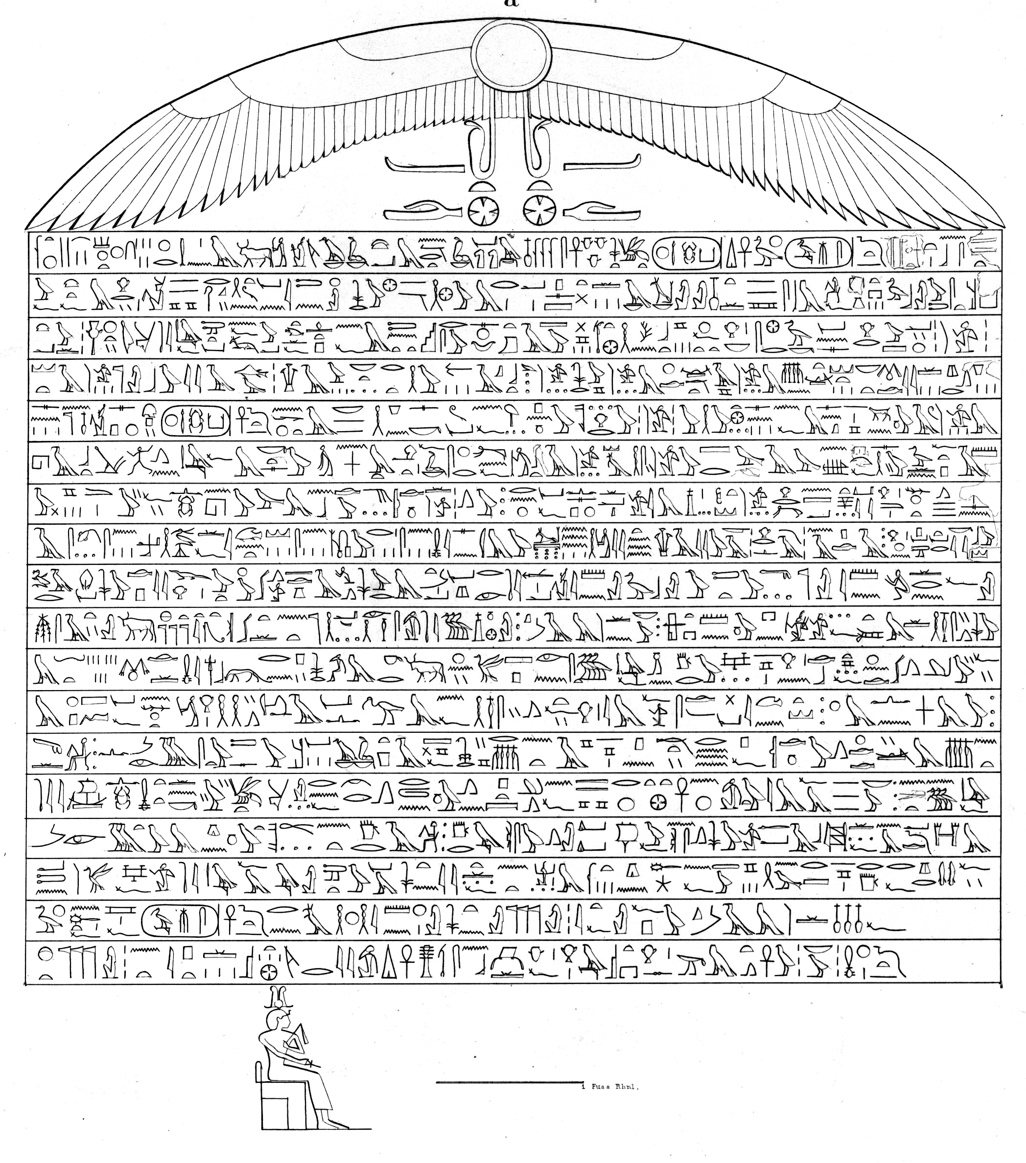 Drawing of the Tombos Stela of pharaoh Thutmose I. Rock inscription from Tombos, Nubia.